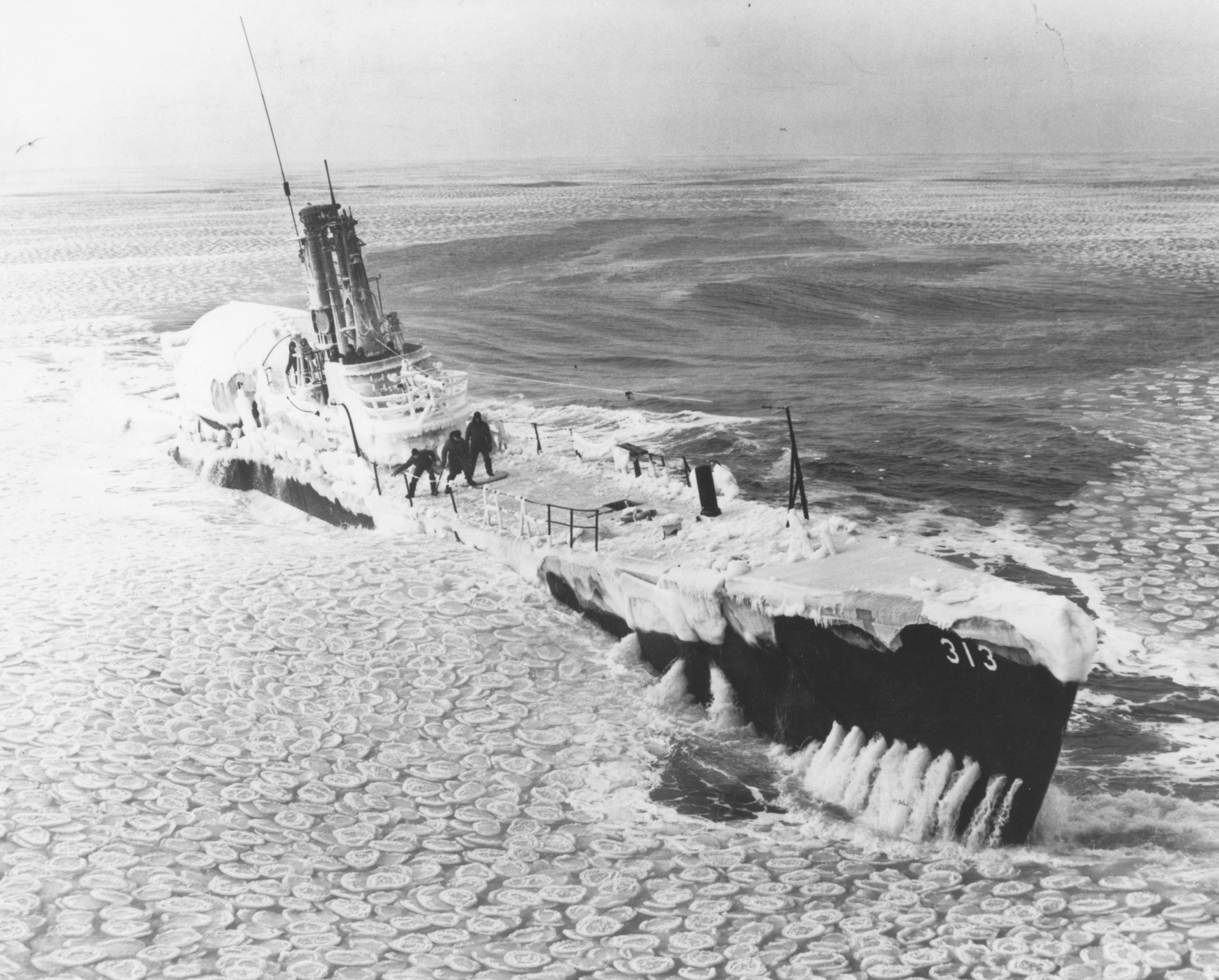 USS_Perch; Perch (APSS-313), Polar Icecap, 1952-53. US Navy photo courtesy of Arctic Submarine Laboratory.